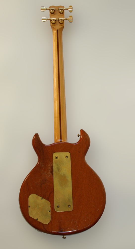 The rear of an S.D. Curlee bass guitar showing the unusual large brass neck plate.